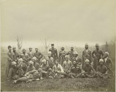 Caucasus: Imeretian cavalry (Imeretian Druzhina)